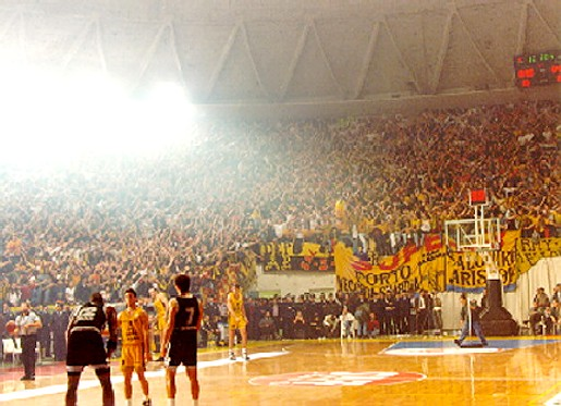 Aris Thessaloniki basketball team fans in Alexandrio Melathron (Palais des Sports) in Thessaloniki, Greece.